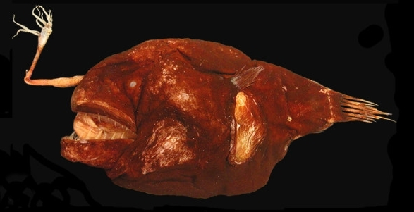 Cut-out from original shown below